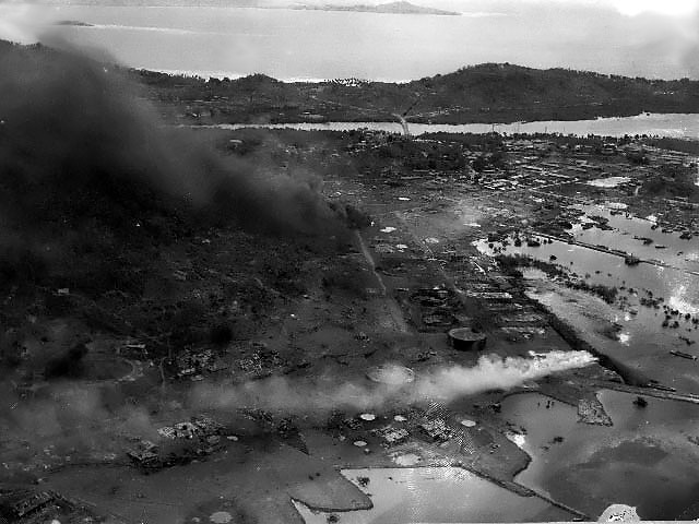 Aerial showing destruction resulting from raid on Truk.